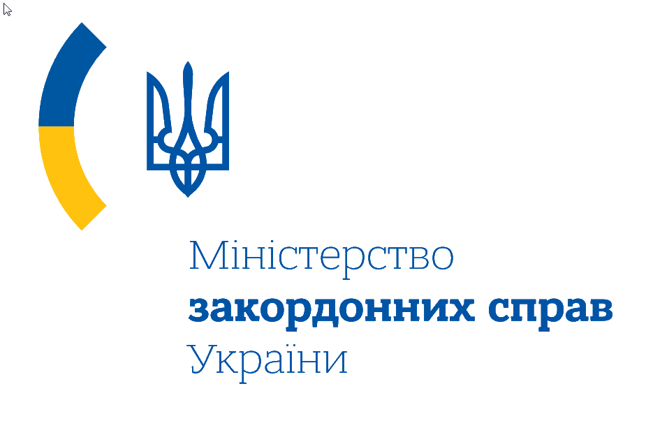 MFA UA